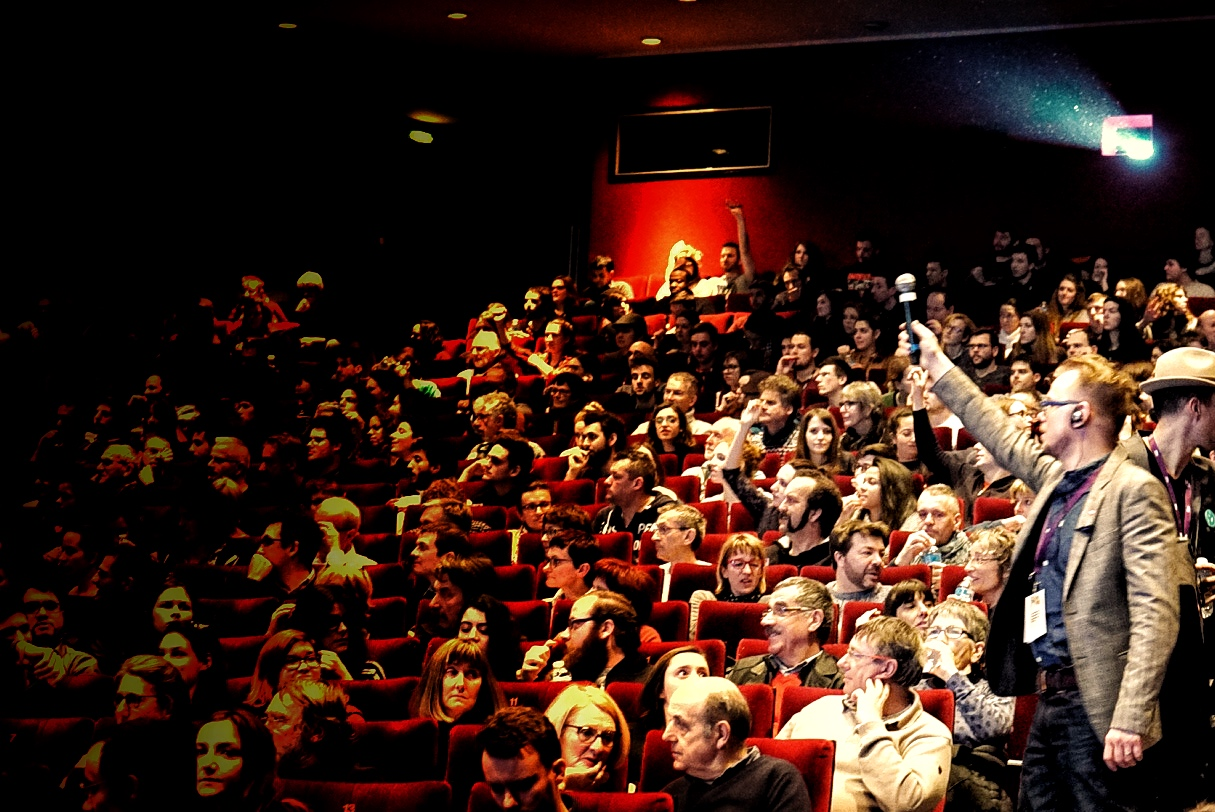 Séance de projection des courts métrages polar SNCF lors du festival du court métrage de Clermont-Ferrand